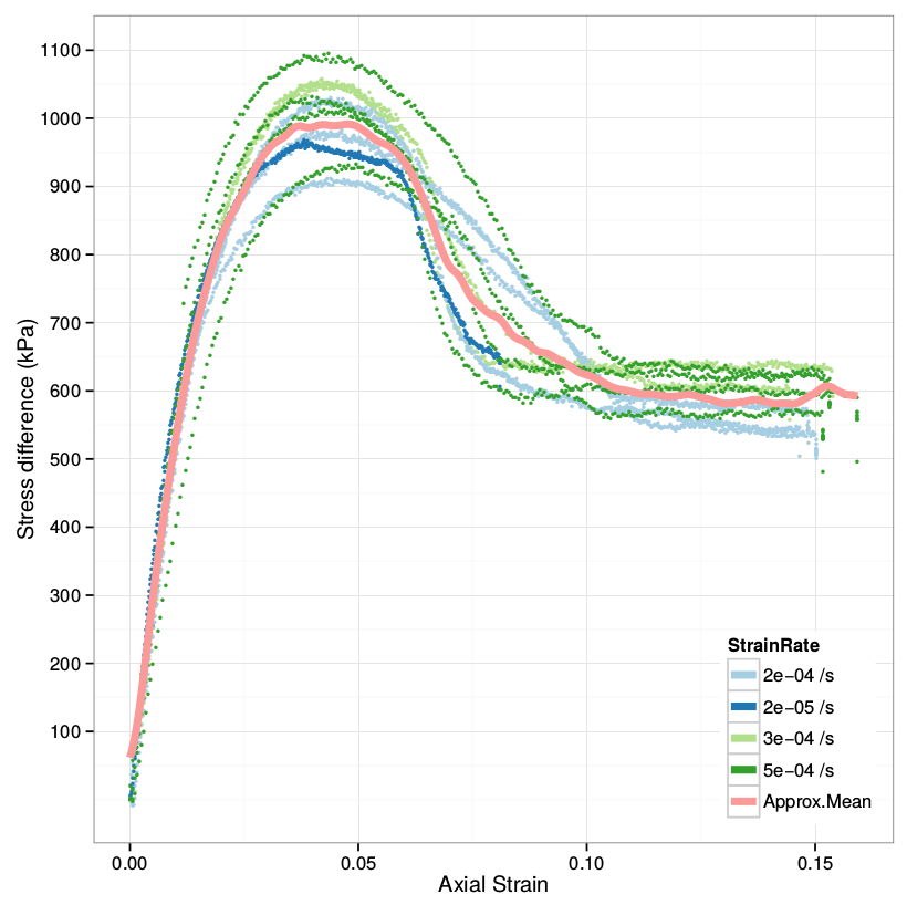 Stress-difference vs. axial strain for a dry sand from a triaxial compression test.